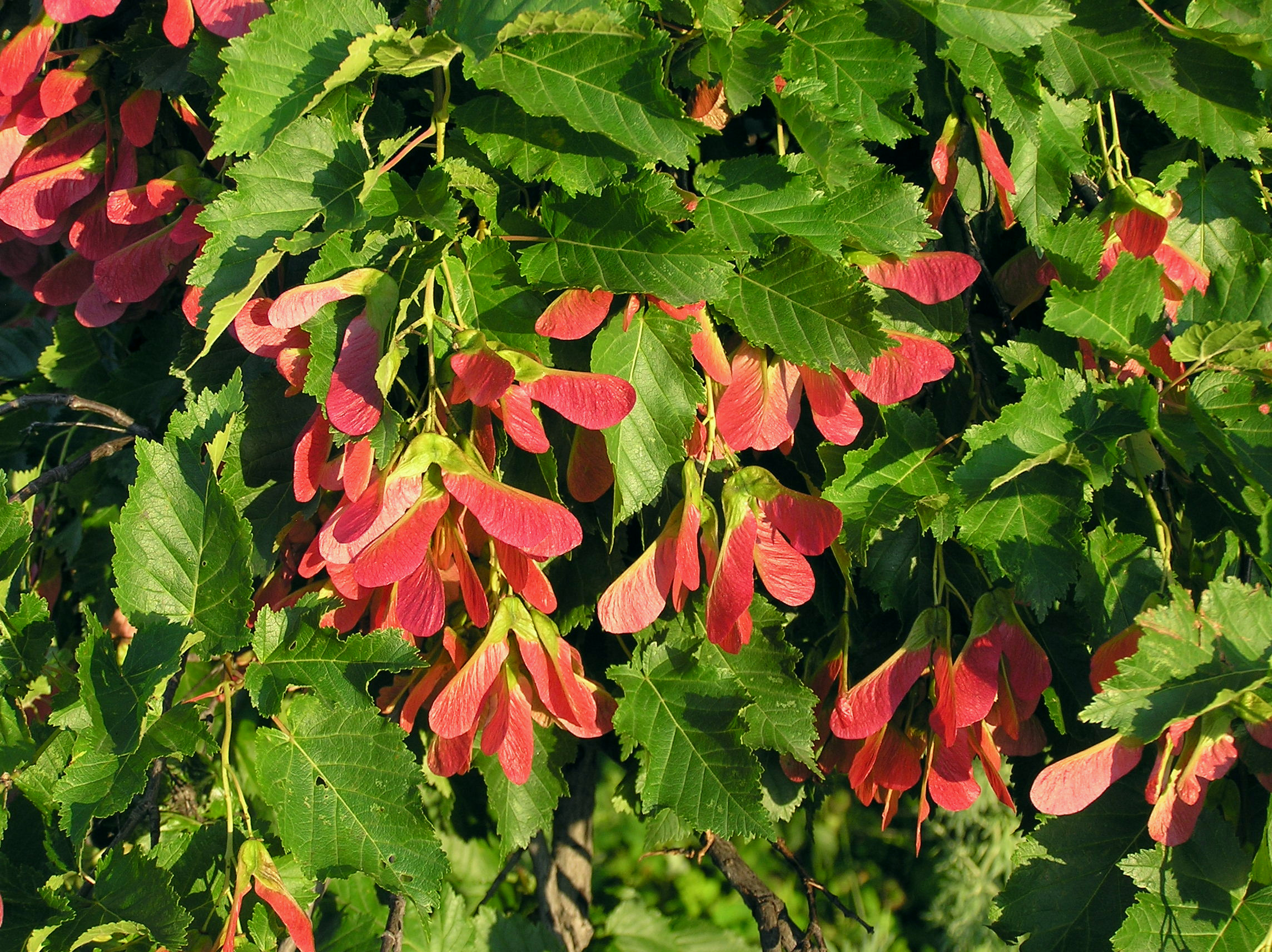 Acer tataricum L. (Tatar Maple or Tatarian Maple); fruits and foliage. Habitat: edges of upland broadleaf forest. Vicinity of Saratov city, Russia.